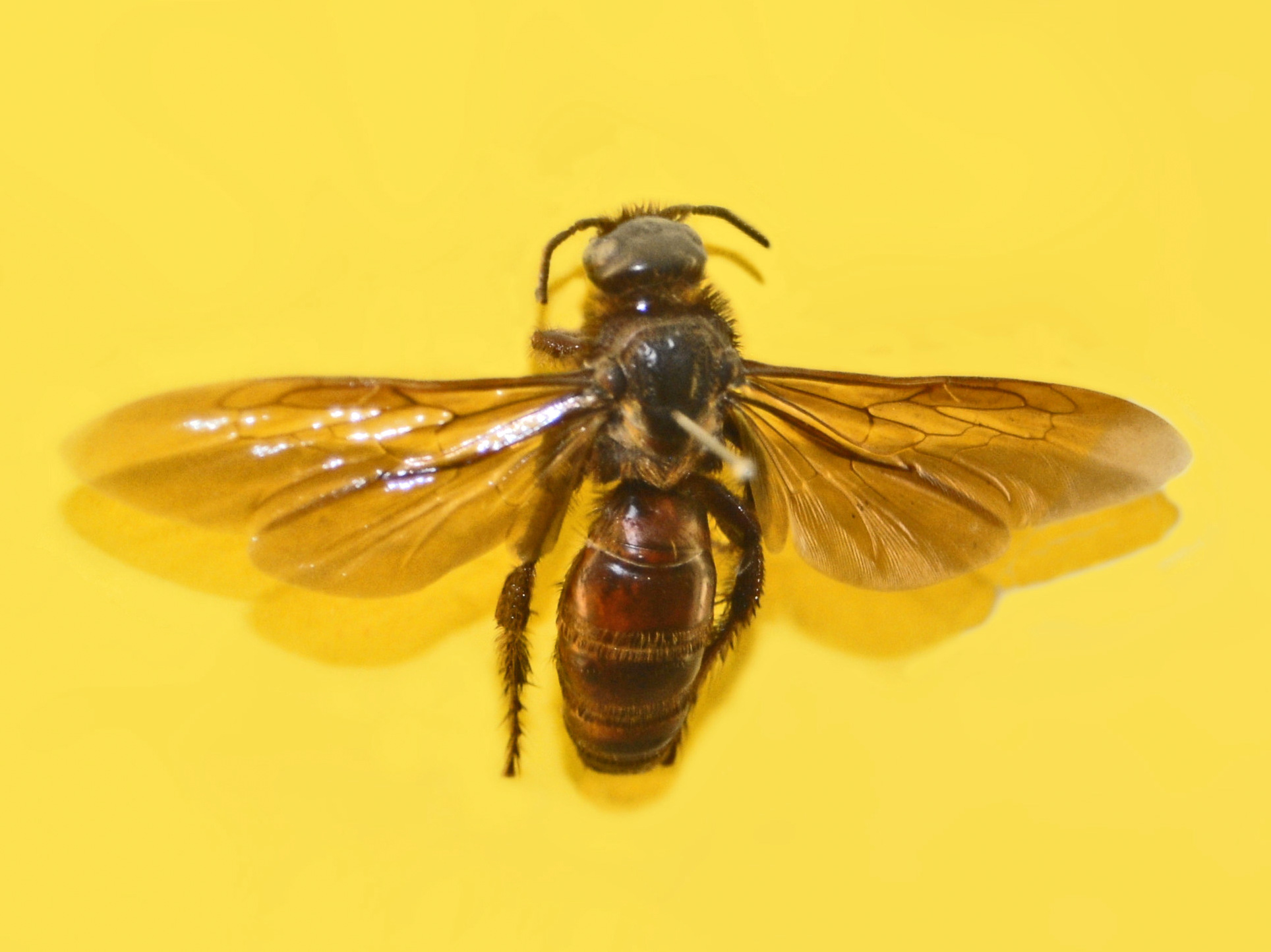 Campsomeris liciflua. Museum specimen